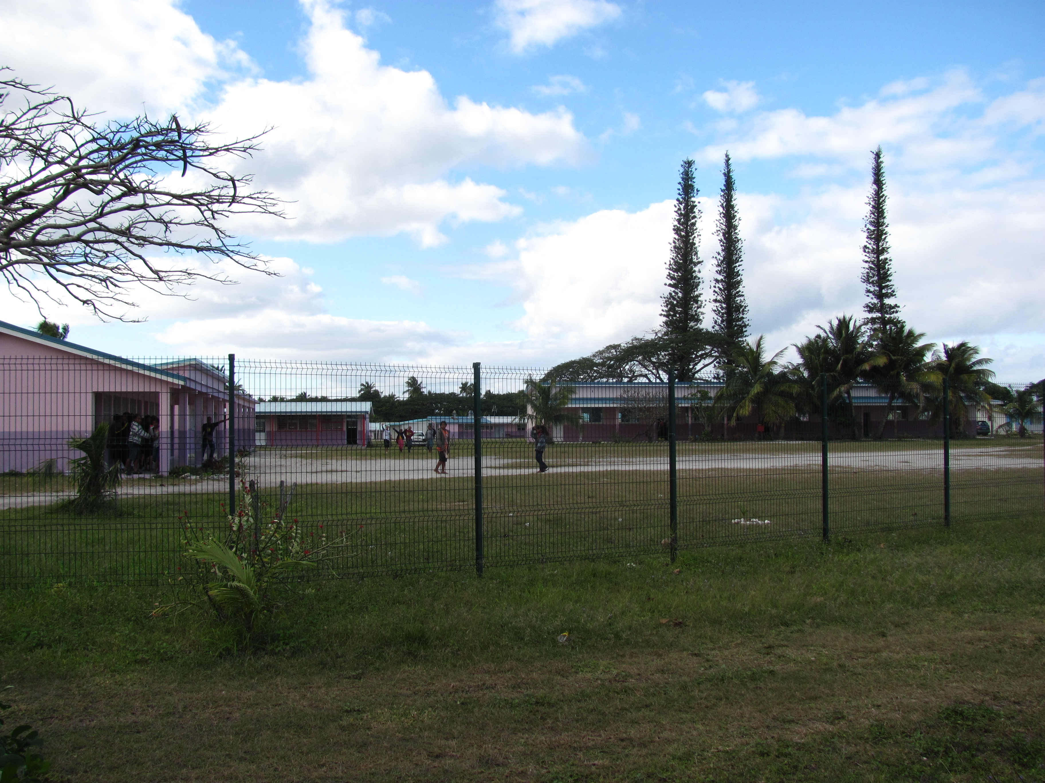 School, Fayaoué, Ouvéa Island, New Caledonia